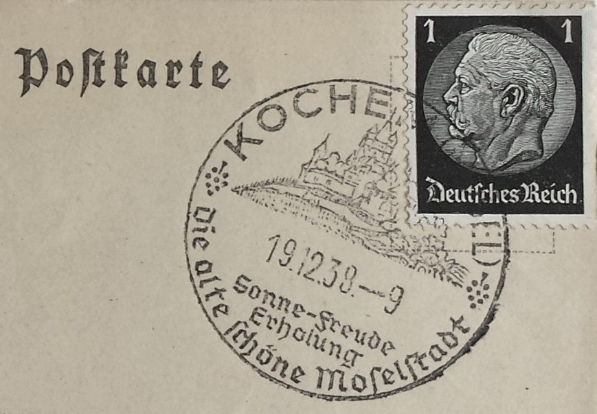 Special postmark Kochem (Mosel) 19.12.38